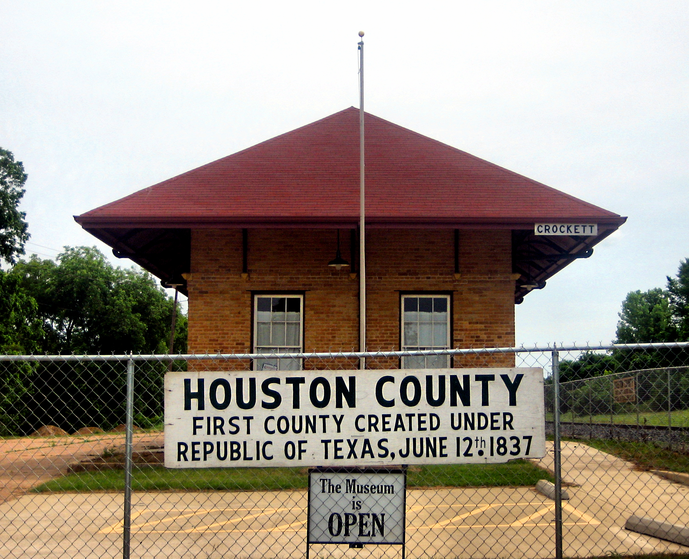 I took photo on May 27, 2009.Billy Hathorn (talk) 19:26, 31 May 2009 (UTC)